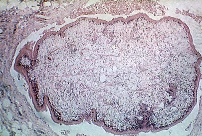 Histopathology of Sparganum proliferum infection. Parasite